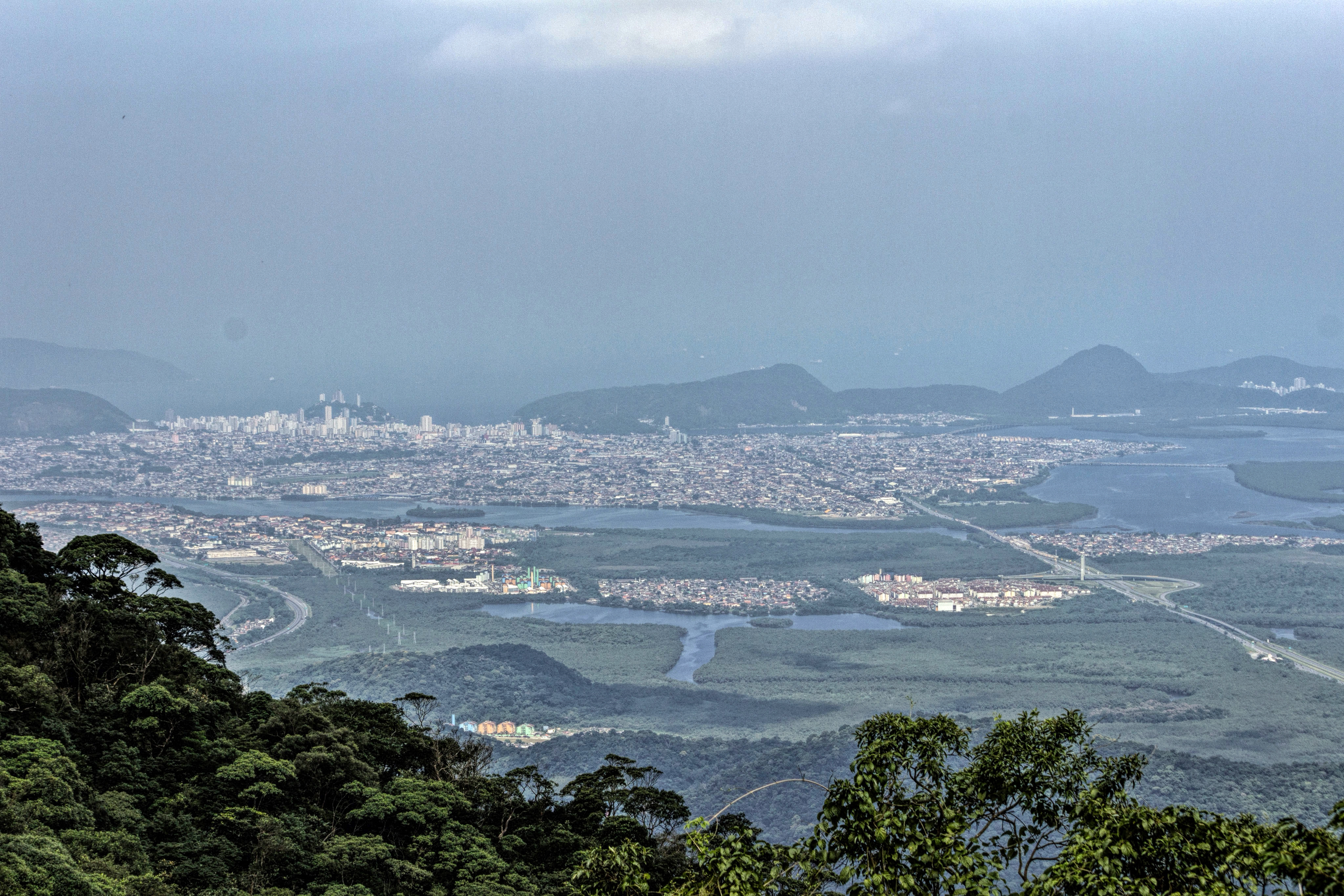 Partial view of Cubatão, São Paulo, Brazil, seen from of the Sea ridge.